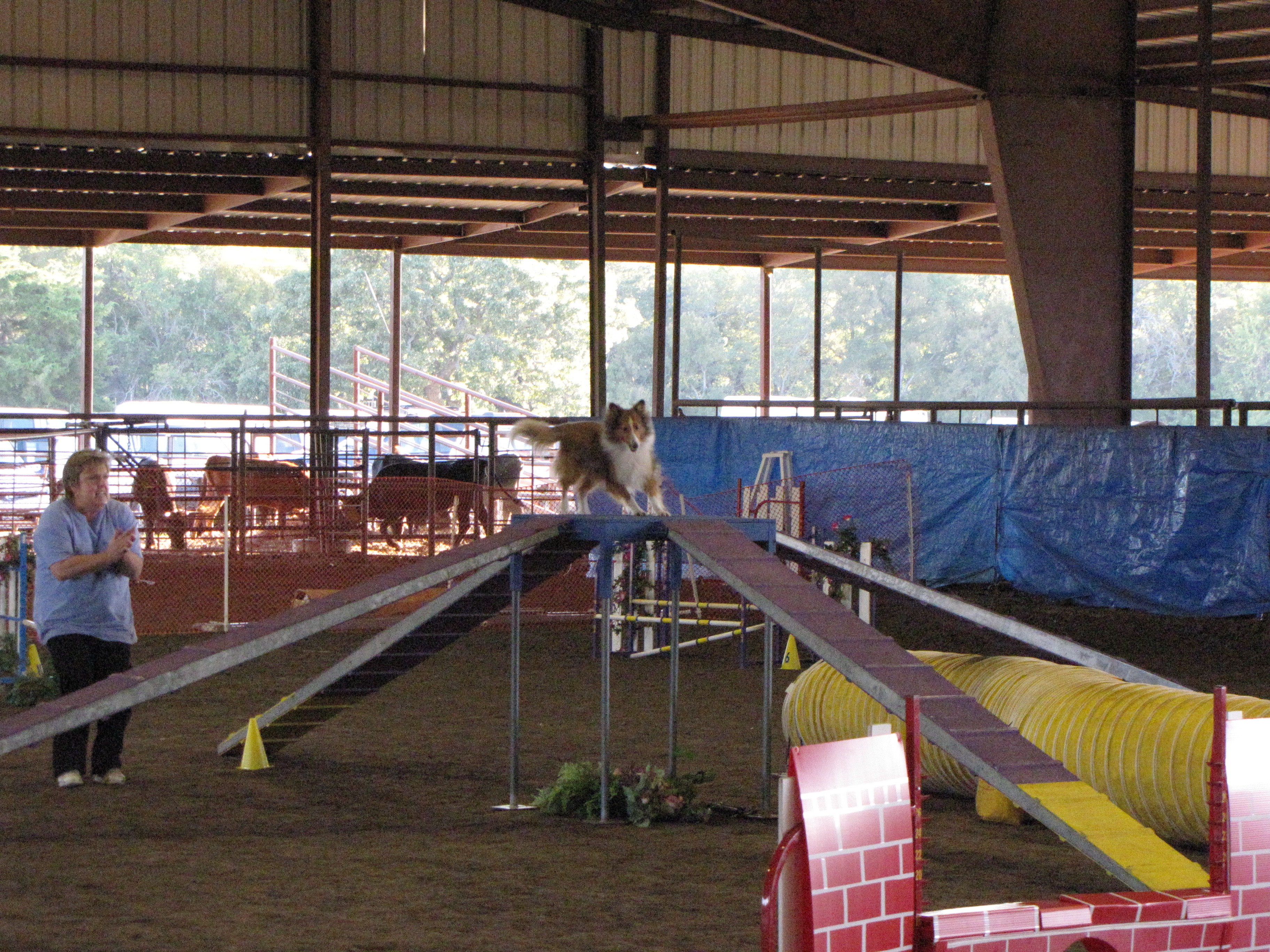 A Shetland Sheepdog performing a crossover during a charity run at an agility trial in Caddo Mills, Texas